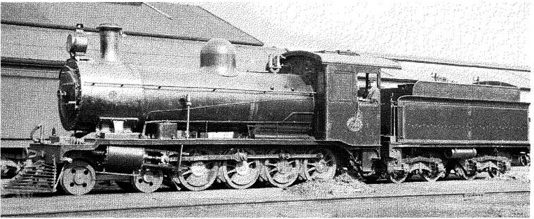 Ex New Cape Central Railways Class 7 no. 10 (4-8-0) South African Railways Class 7F 1358 (4-8-0) Builder's Number: NBL 20218 Location: Salt River, Cape Town